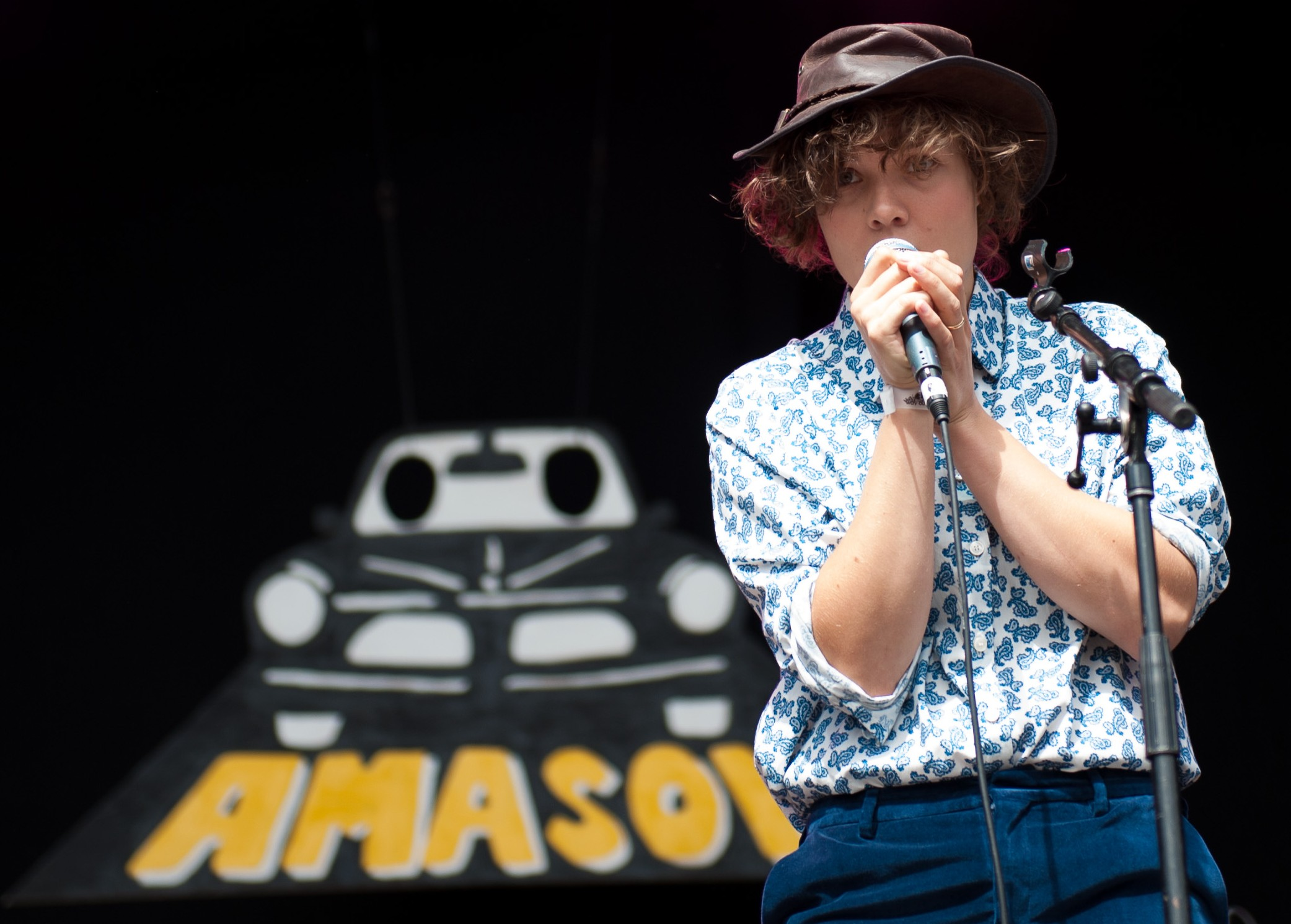 Amanda Hollingby Matson of Amason at Way Out West 2013 in Gothenburg, Sweden